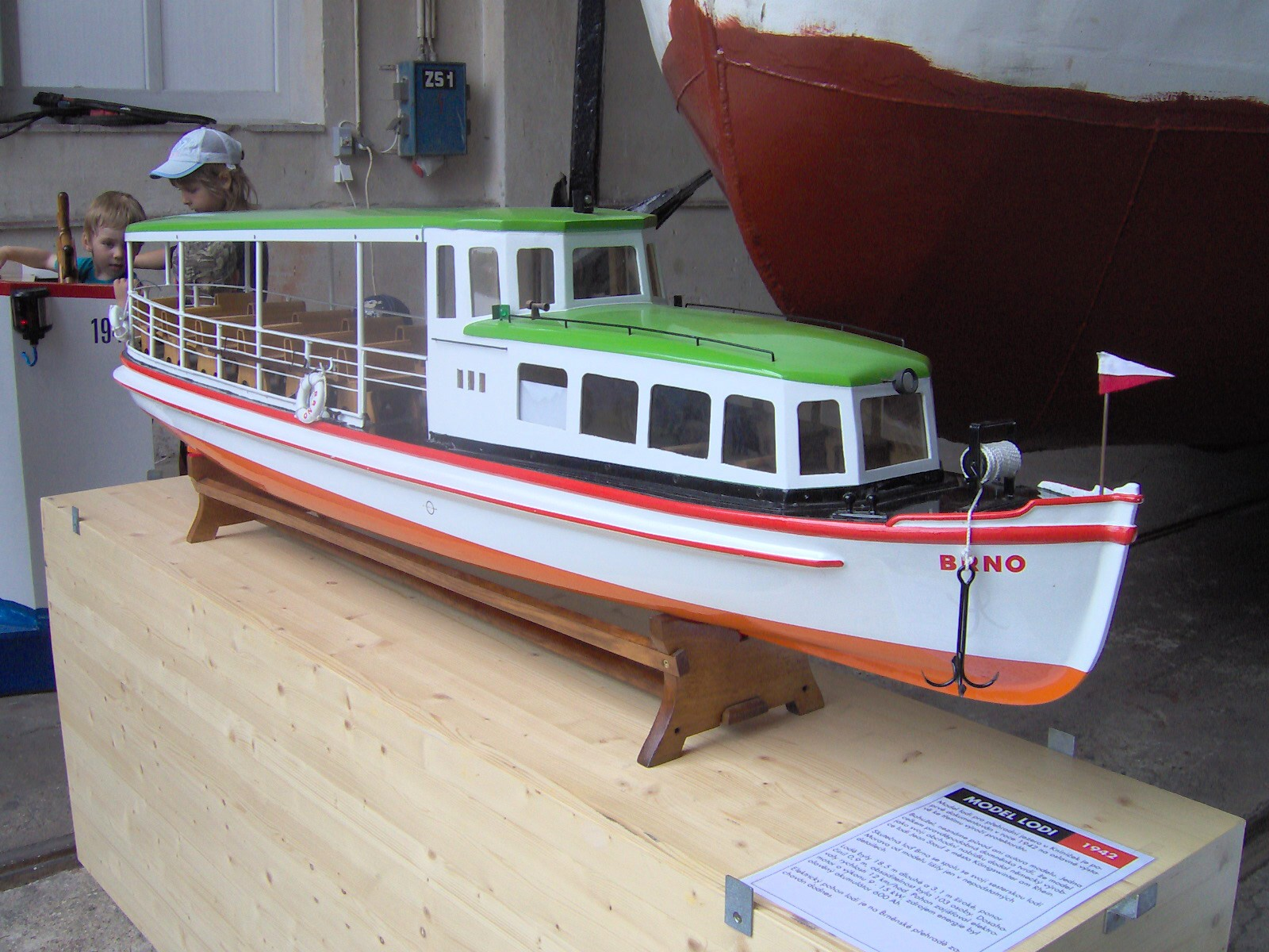 Model of Brno ship from 1942, open day in the shipyard of DPmB, Brno, Czech Republic